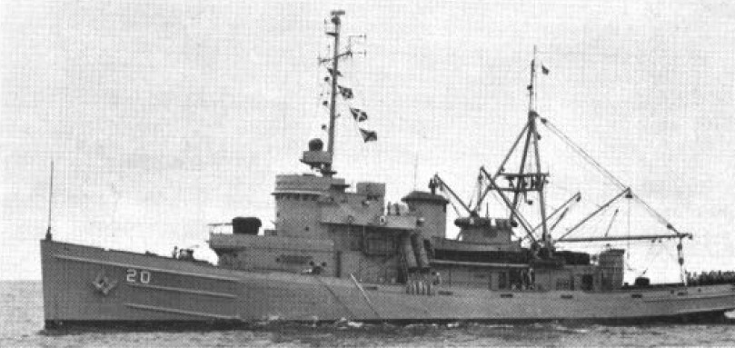 The U.S. Navy submarine rescue ship USS Skylark (ASR-20) at sea, circa in the early 1950s.